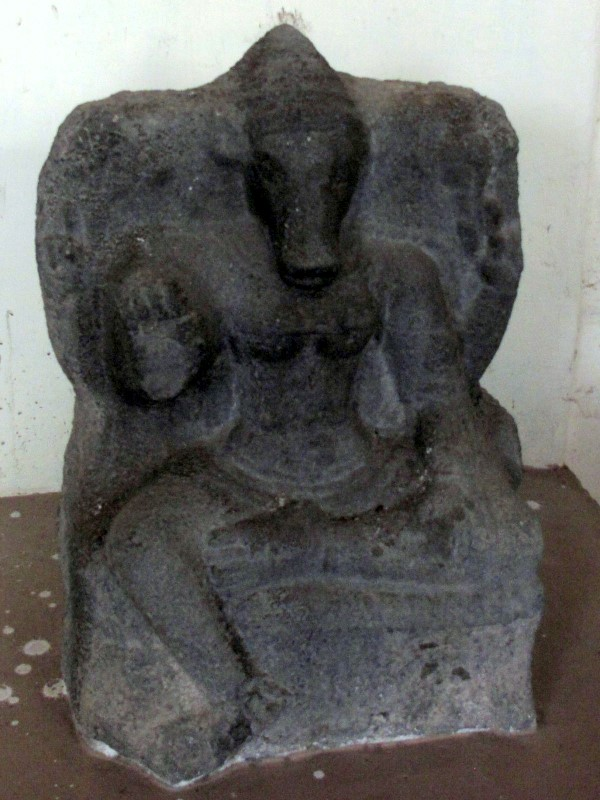 Varahi, Tanjore